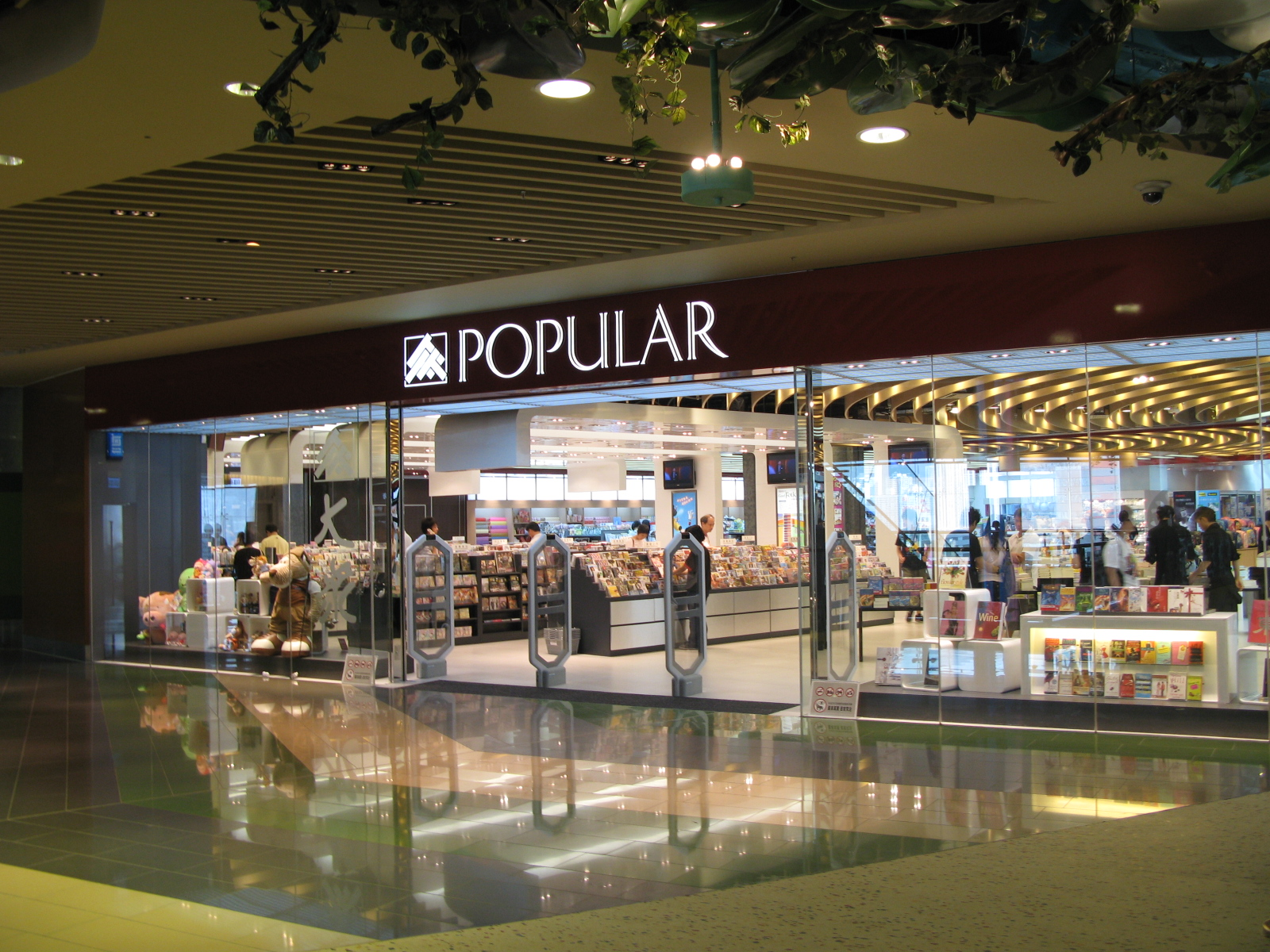 Megabox Popular Book Store